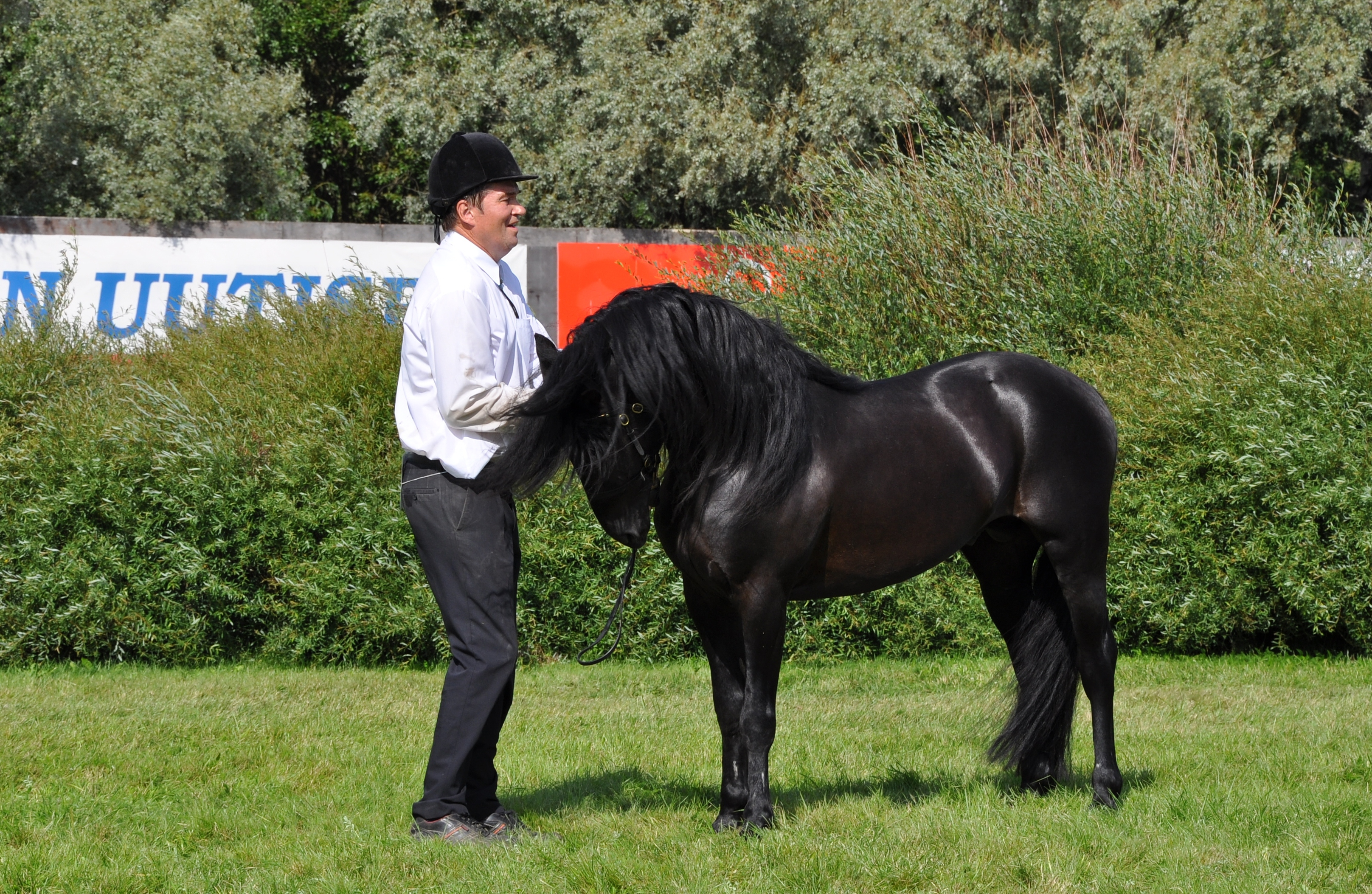 P-section Finnhorse stallion Ukko-Myrsky.